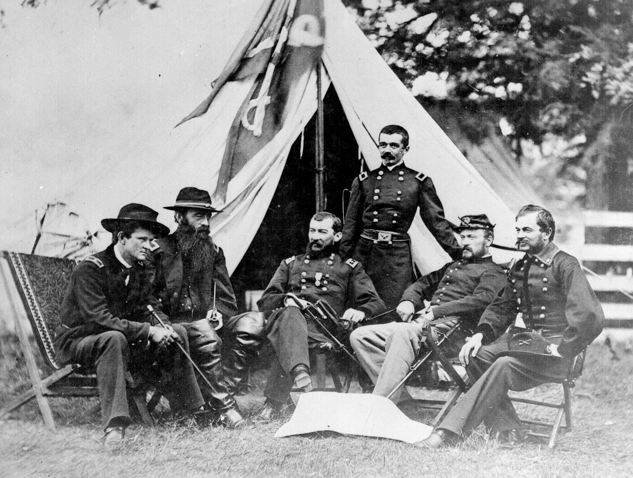 Maj. Gen. Philip Sheridan and his generals in front of Sheridan's tent, 1864. Left to right: Wesley Merritt, David McMurtrie Gregg, Sheridan, Henry E. Davies (standing), James H. Wilson, and Alfred Torbert. 111-B-9.